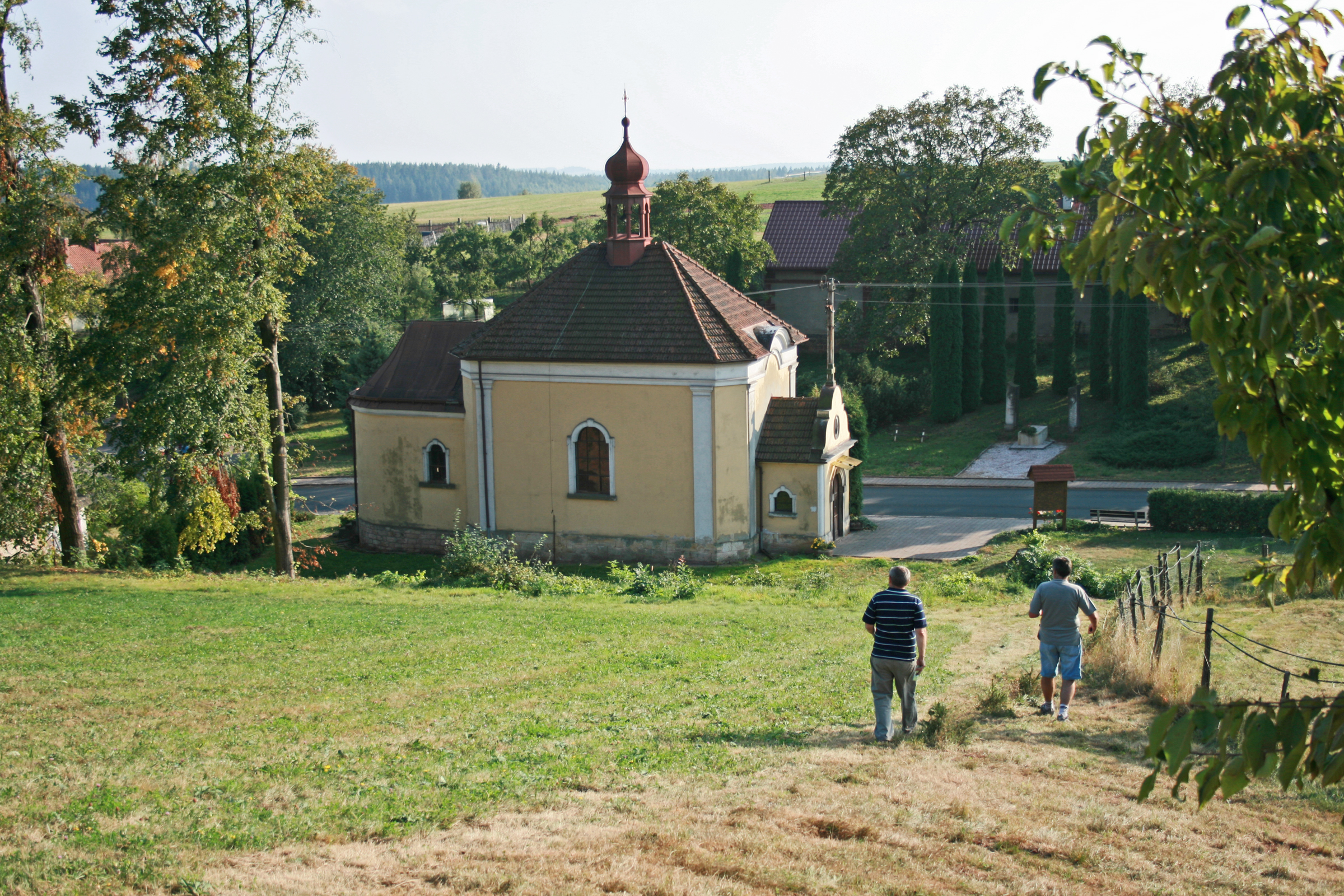 Church in village Třebihošť, East Bohemia, Czech Republic